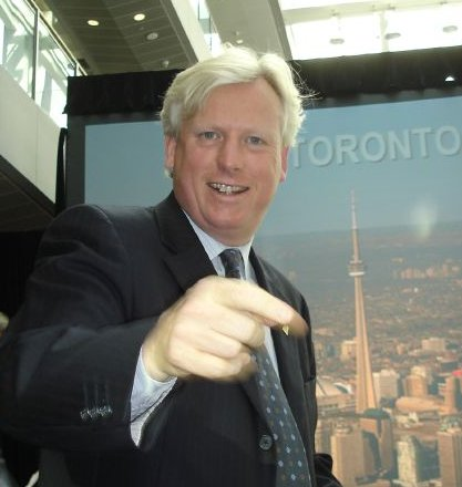 David Miller launching "ICT Toronto". Blog entry about event.